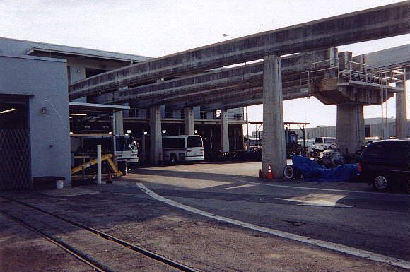 picture taken while on the Trains tour at WDW